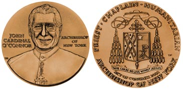 The obverse of the medal features a portrait profile of John Cardinal OConnor in his stately attire. The inscription JOHN CARDINAL OCONNOR is centered along the right side of the medal and the inscription ARCHBISHOP OF NEW YORK is centered along the left side of the medal. The reverse of the medal features the Seal of the Archbishop of New York in the center of the medal. The inscription, PRIEST CHAPLAIN HUMANITARIAN is centered along the top of the medal and the inscription ARCHBISHOP OF NEW YORK centered along the bottom of the medal.